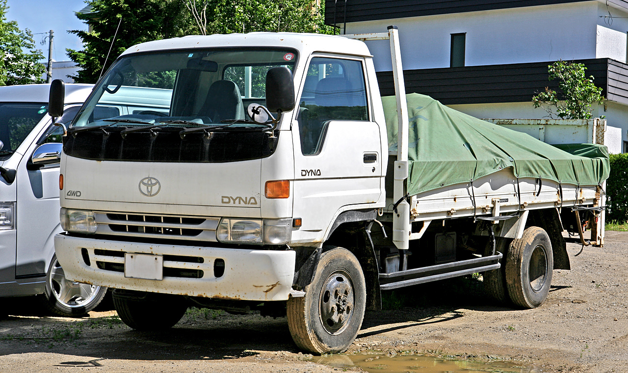 Toyota Dyna 4WD Wide ( BU2xx )